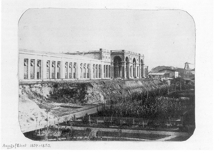 Central part and western plant hall, Orangery palace, Potsdam, Germany